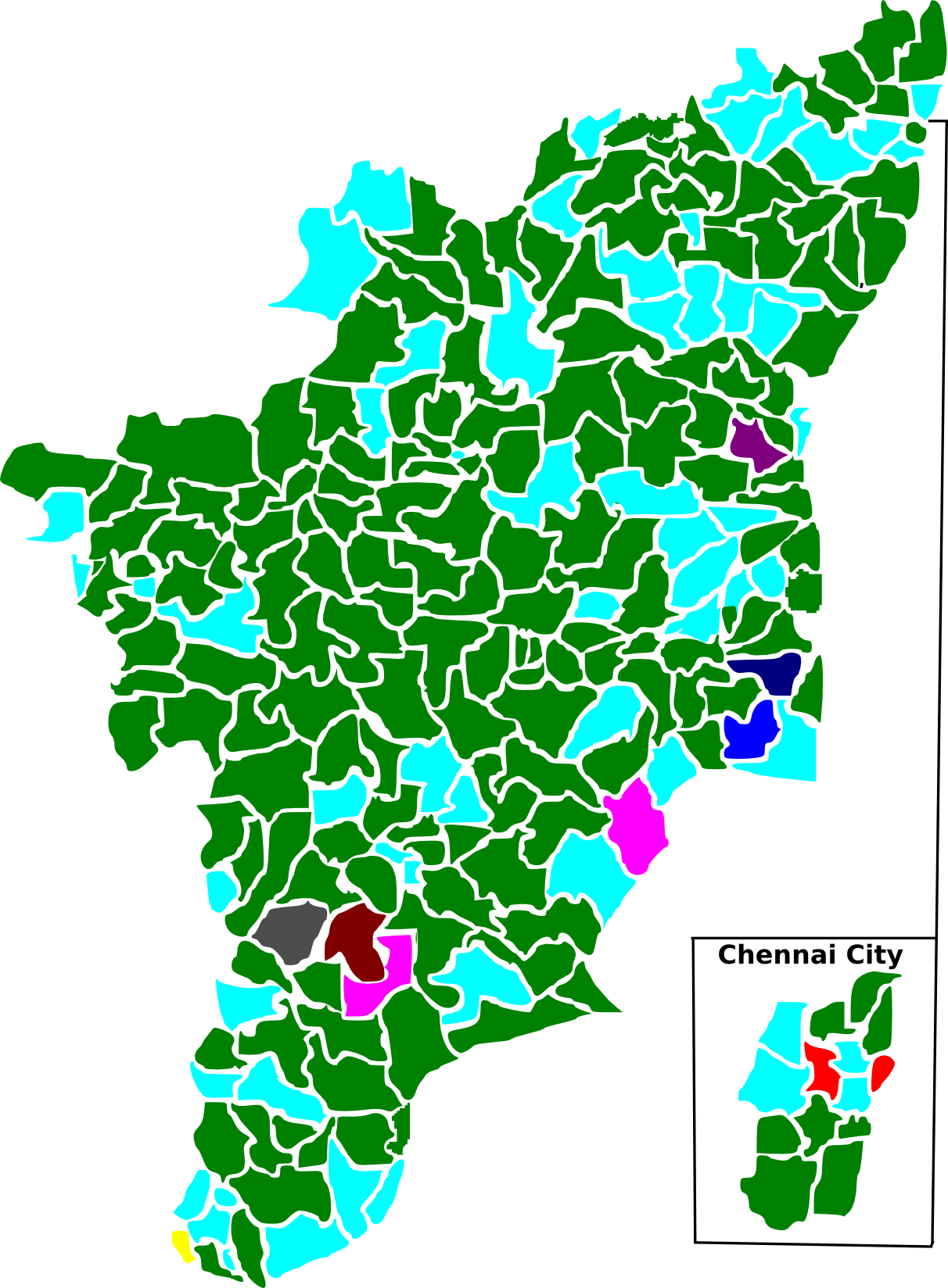 made election map using borders from ECI website using Inkscape. Results based on ECI website. [1]